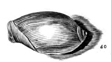 Anolacia aperta Lister, 1688: Pl. 746 fig. 40.